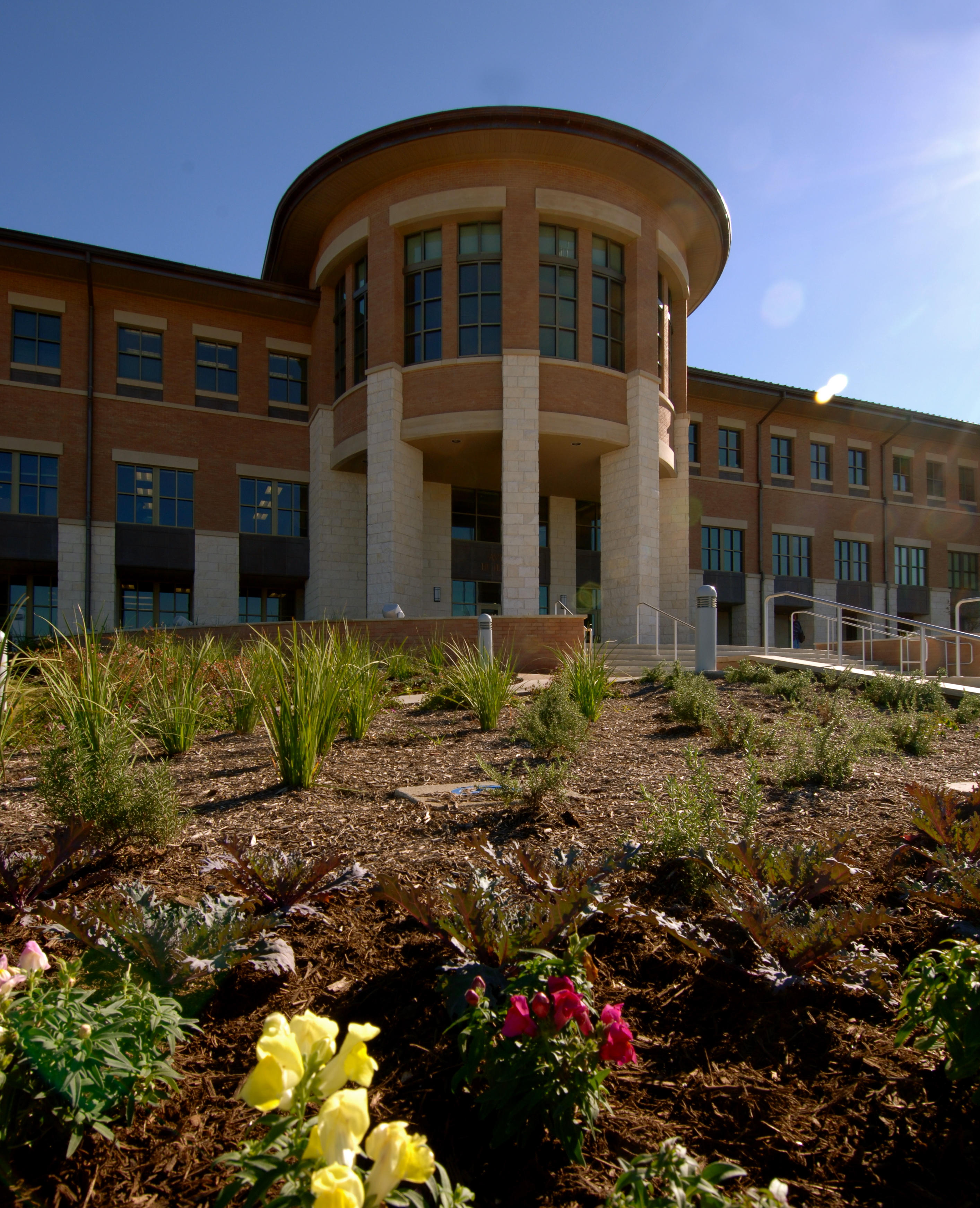 Photo of Texas State - Round Rock taken from flower bed.